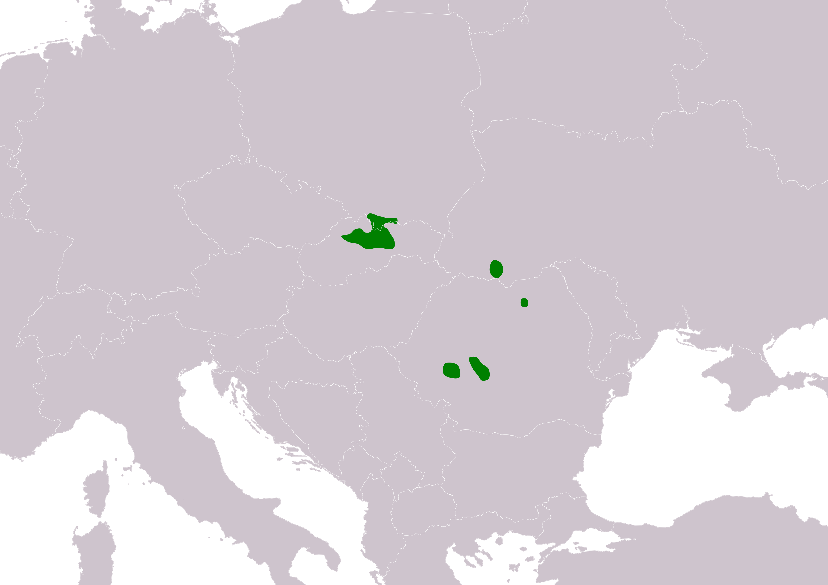 Distribution map of Pseudogaurotina excellens according to IUCN version 2020.1; key: Legend: Extant, resident (#008000)